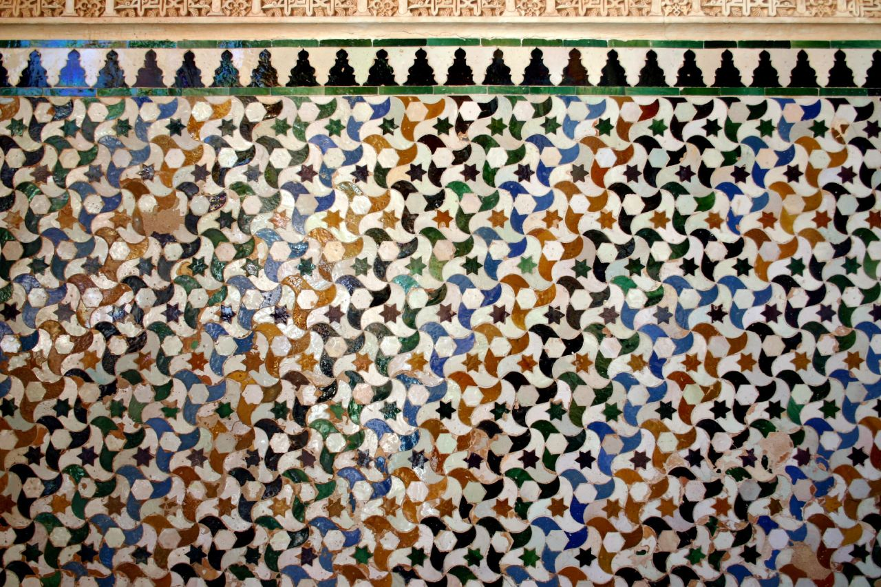 Tessellation in the Alhambra. This was one of the tilings sketched by M. C. Escher in 1936.